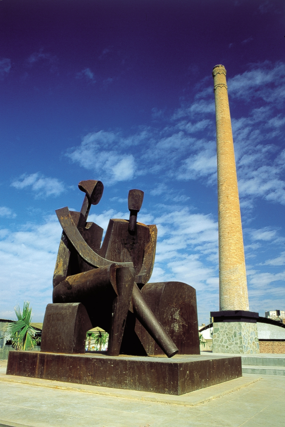 El consejo (Homenaje a la mujer) San Roque